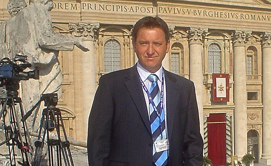 Adam Walters reporting from Rome for National Nine News